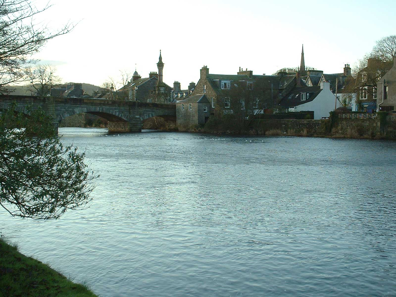 Bridge Over the River Cree at Newton Stewart, Dumfries and Galloway, Scotland.